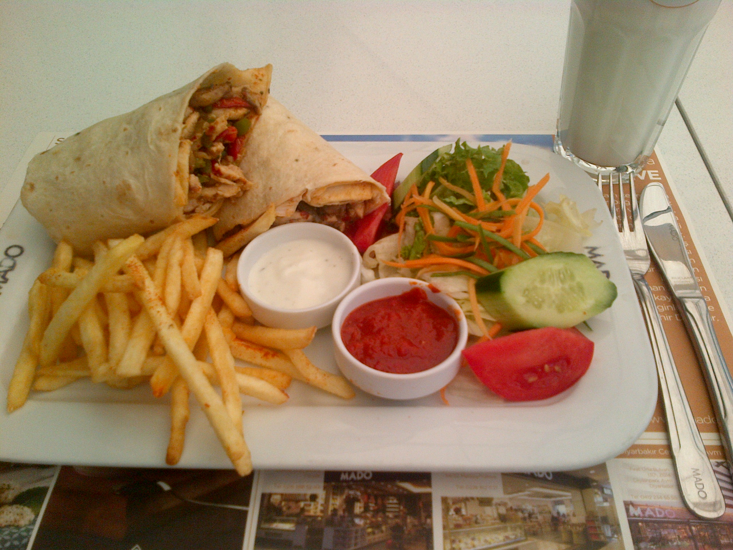 Tavuk (chicken meat) "dürüm" and ayran, in Ankara.